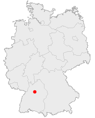 Location of Bietigheim-Bissingen in Germany